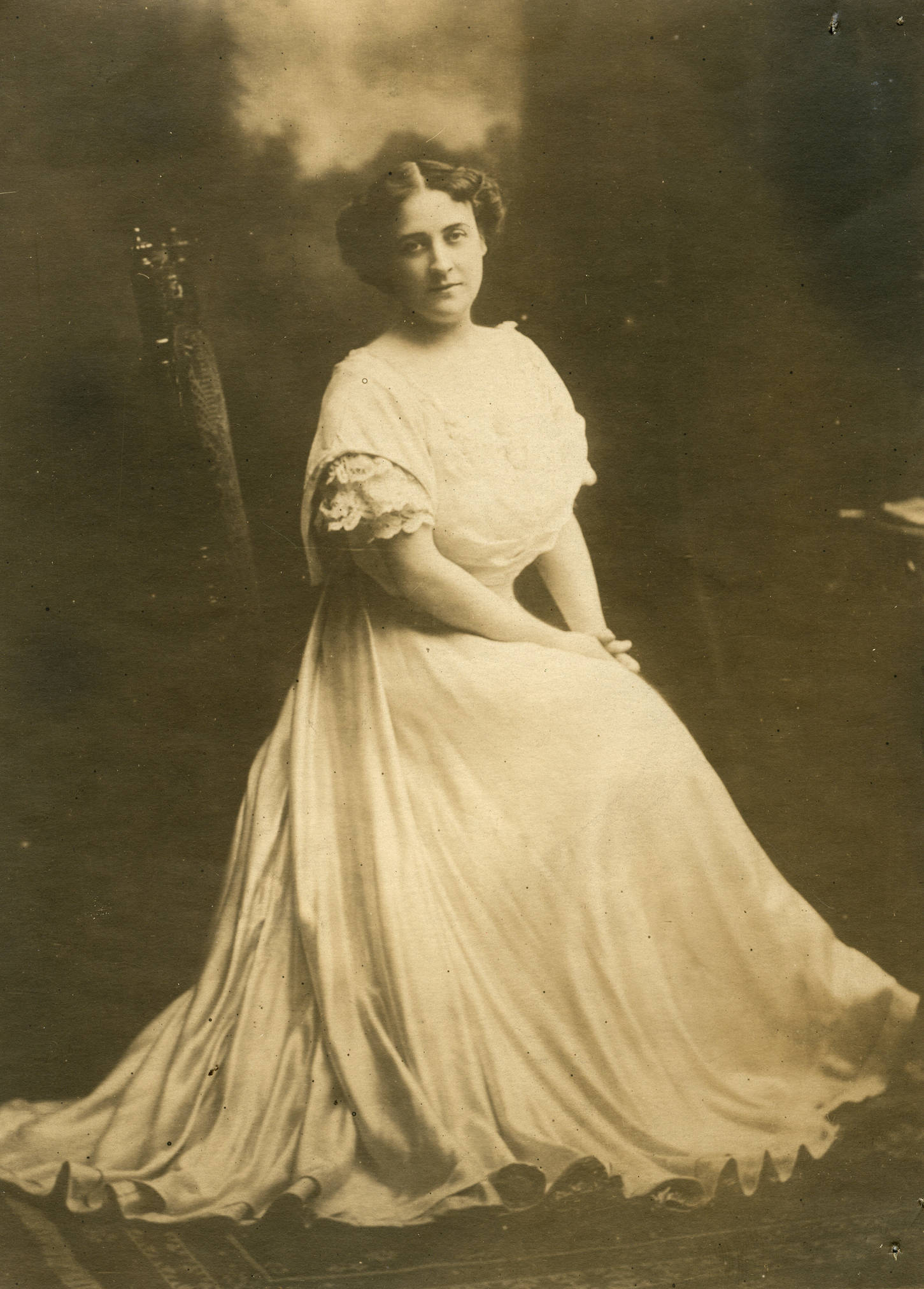 Grace Van Studdiford, stage actress Subjects: actresses